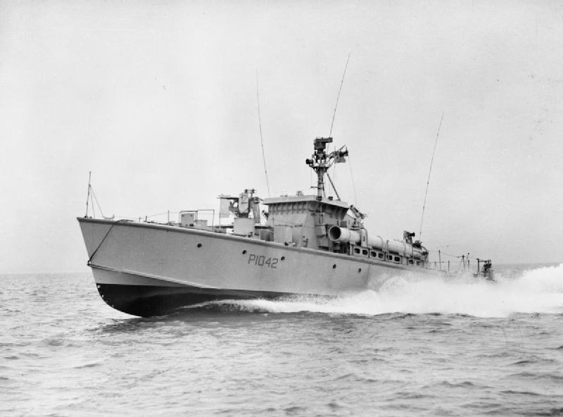 HMS GAY BOMBADIER, Gay Class fast patrol boat fitted out as a torpedo boat undergoing trials on Portsmouth Harbour.